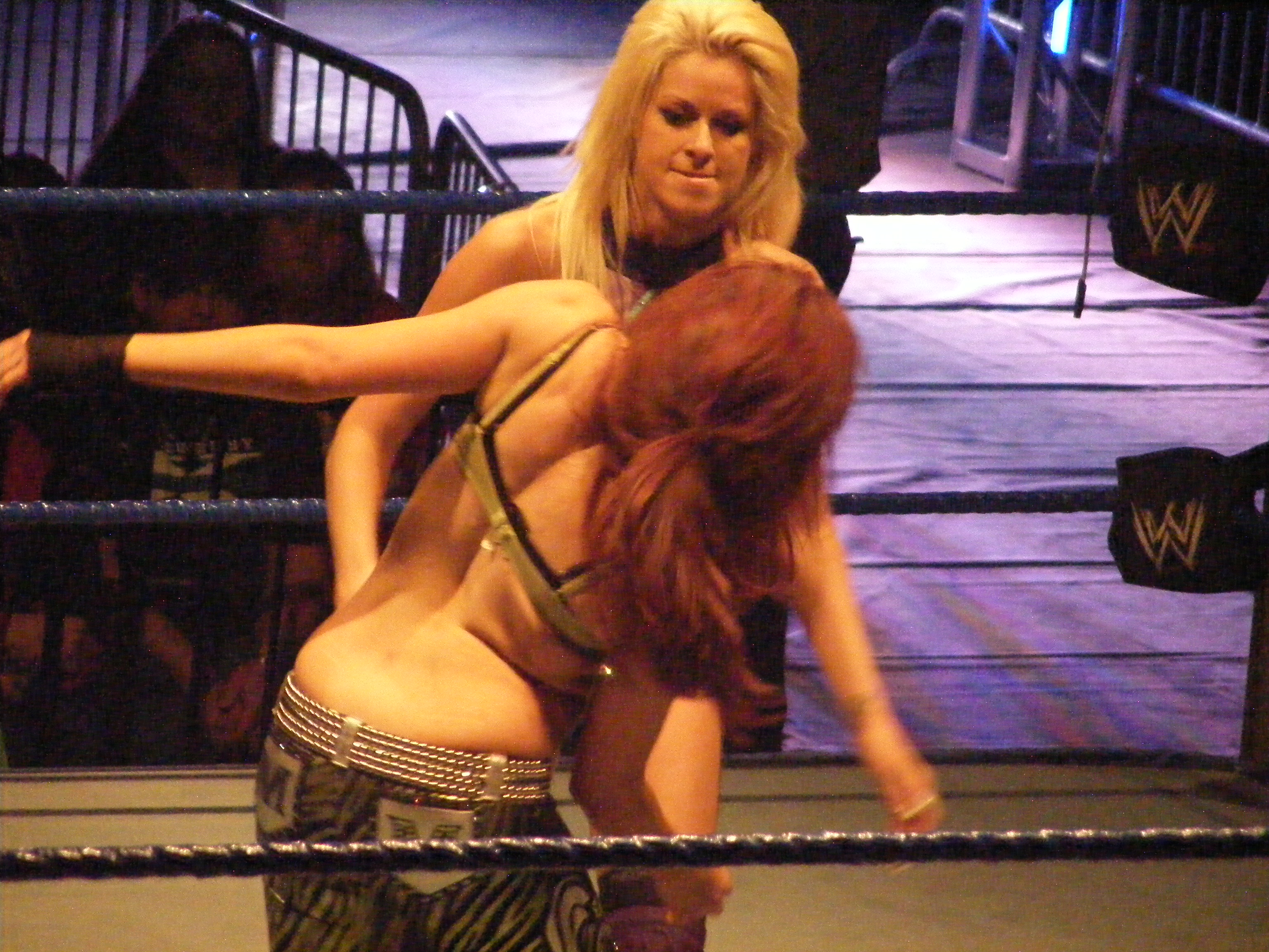 WWE Diva Maryse wrestling Maria at a WWE show on February 28, 2009